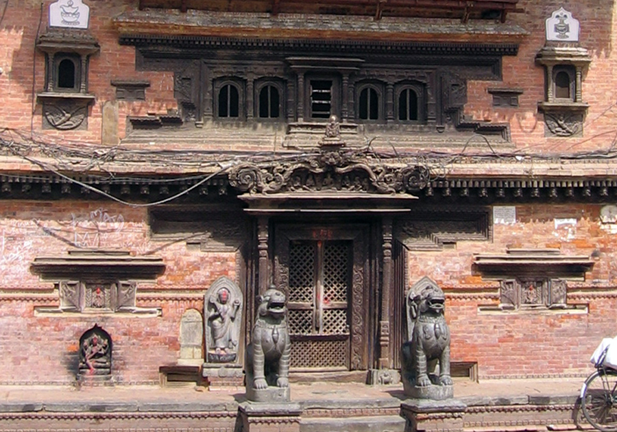 Traditional carved wooden window known as Pasukha Jhya on a sacred house at Yatkha Baha, Kathmandu.